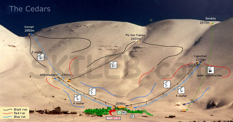 Cedars pistemap